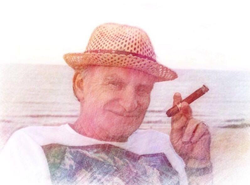 Photographic portrait of the entertainer Kaplan Kaye which I have adjusted at his request